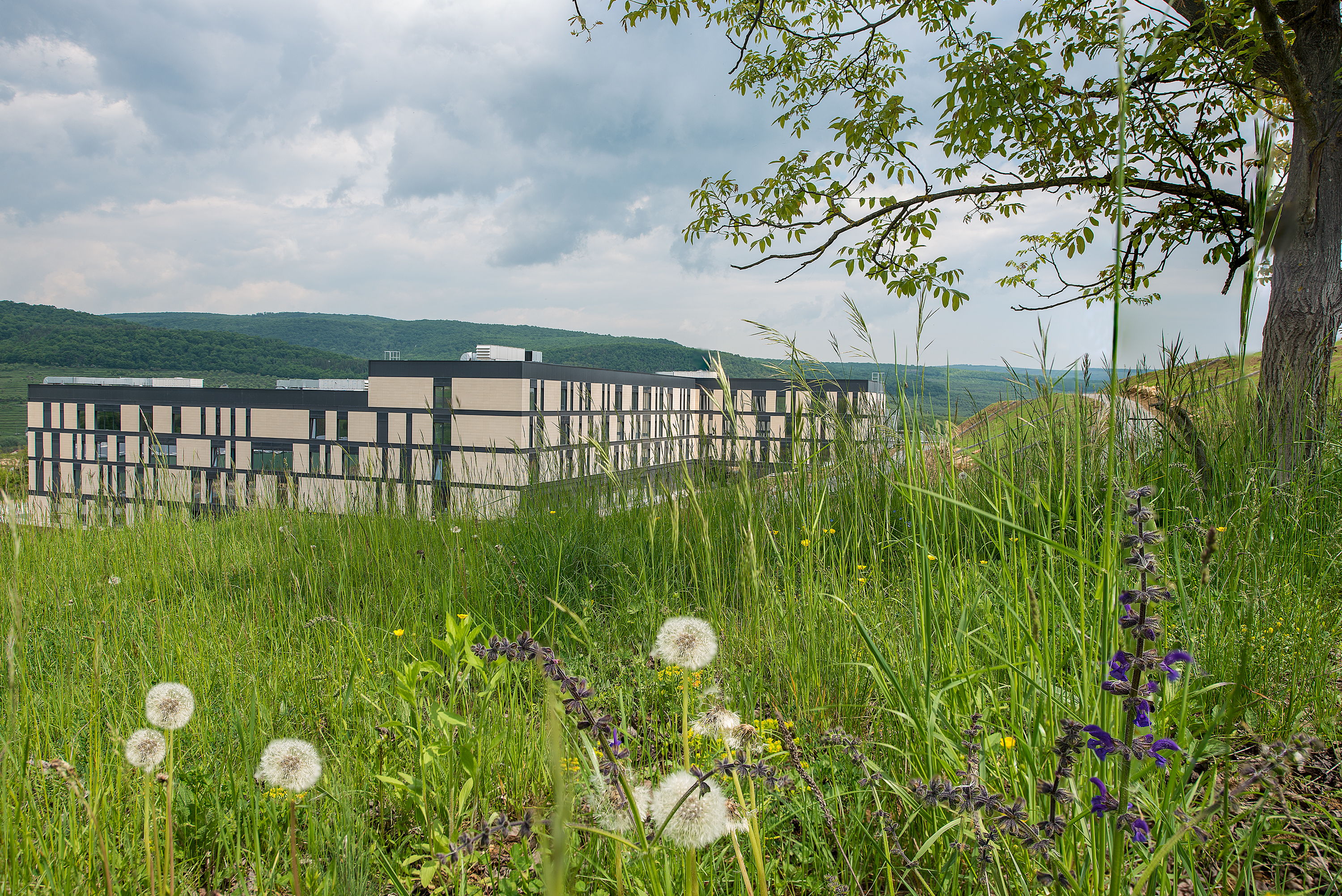 Spitalul se afla la 6 km de Cluj spre Zalau